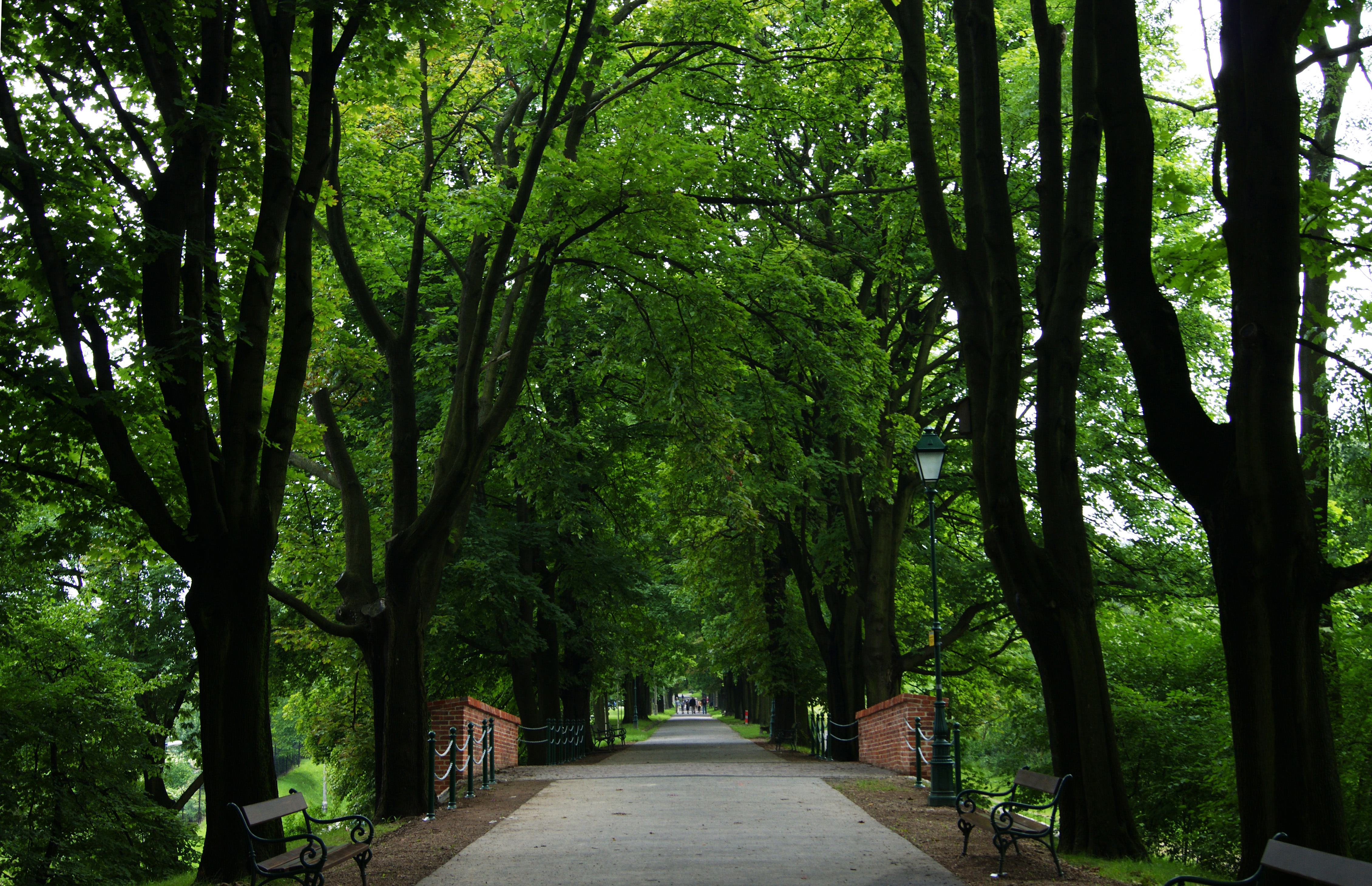 Waszyngtona Av and Devil's Bridge, Krakow, Poland